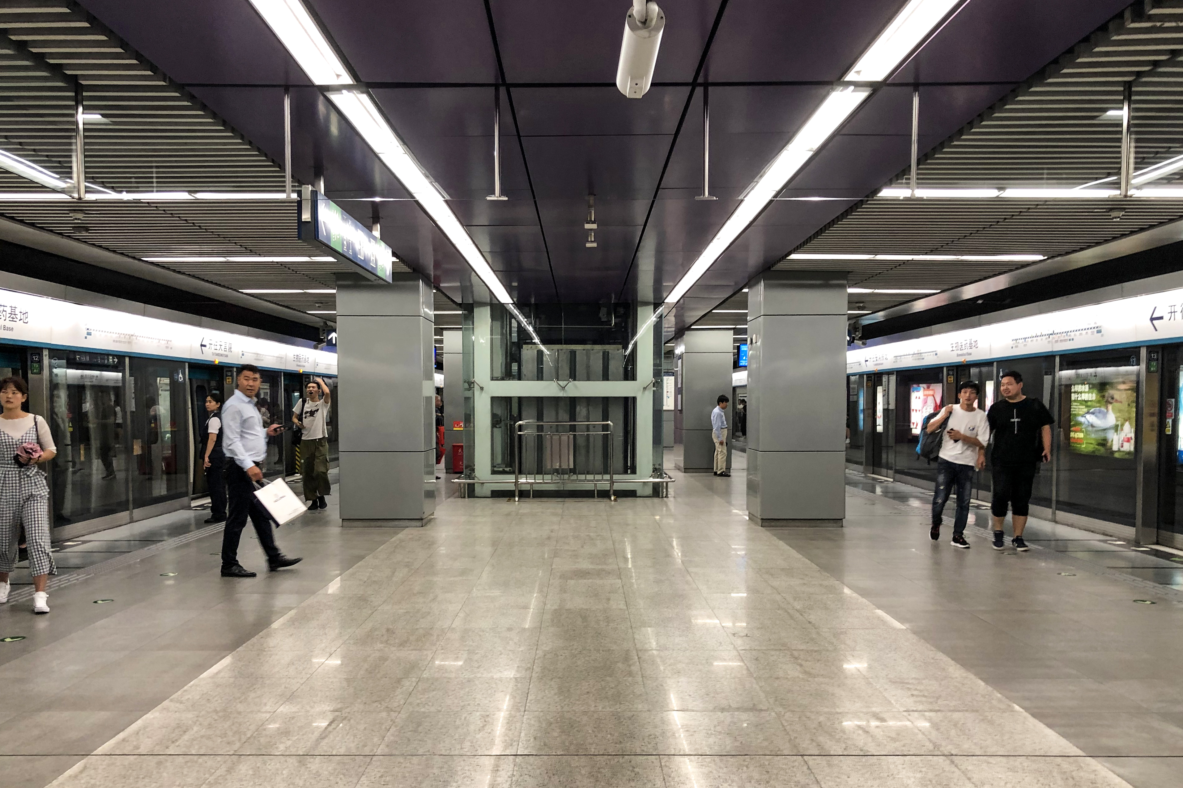 Grayish with a purple ceiling.